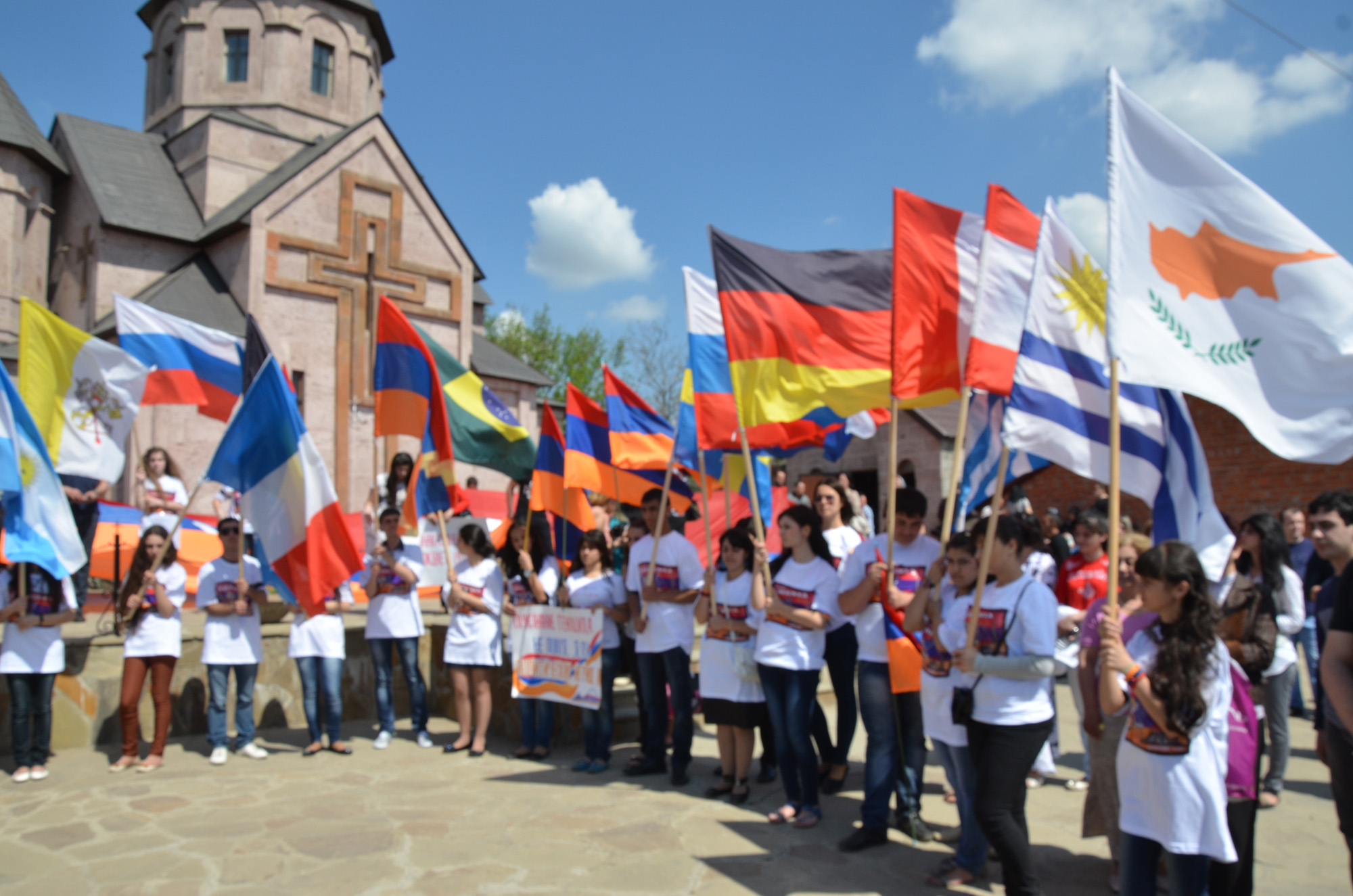 Genocide meeting 24.03.2012 in armenian church Sourb Gevorg